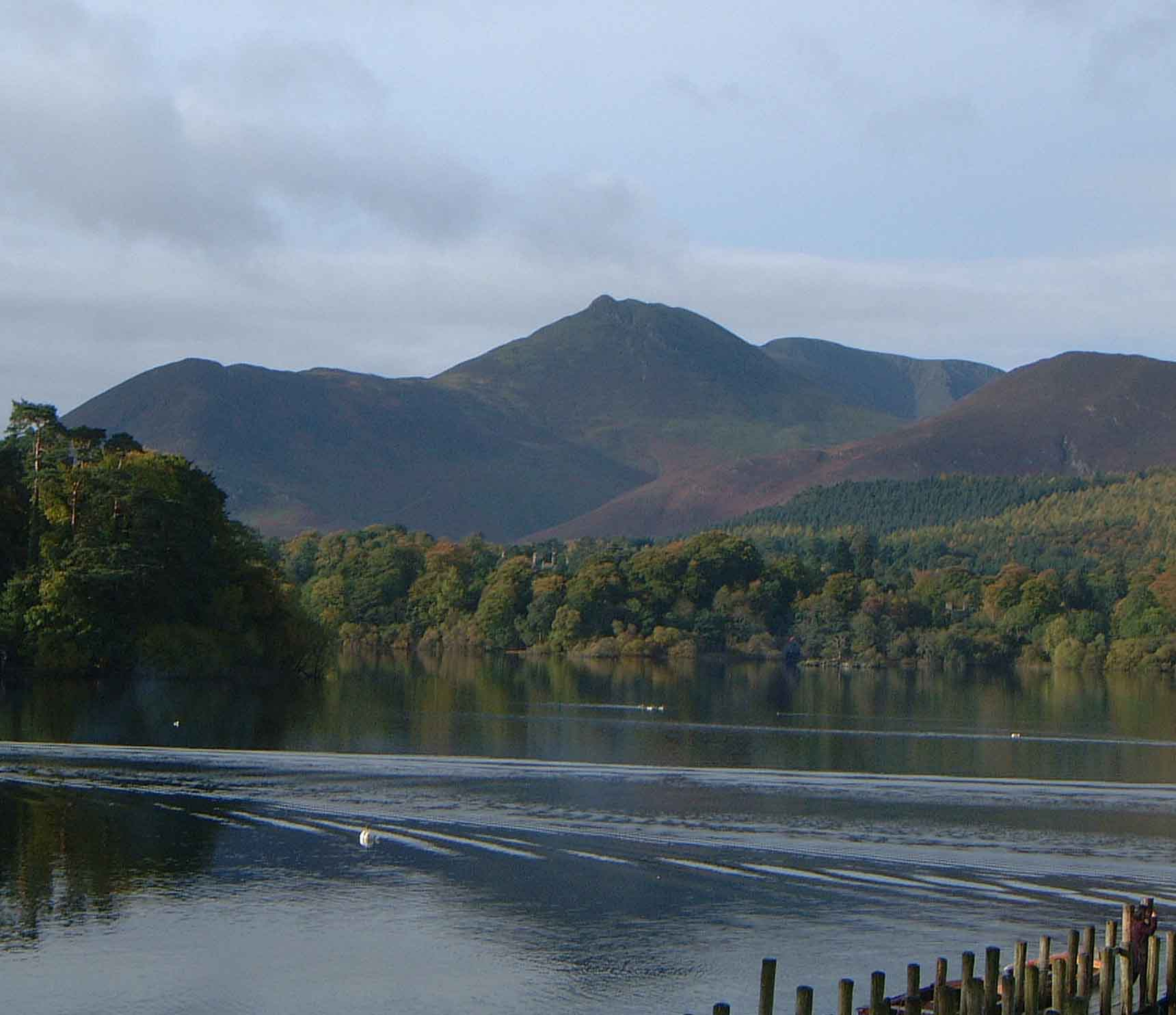 Personal photograph taken by Mick Knapton on October 28th 2001.